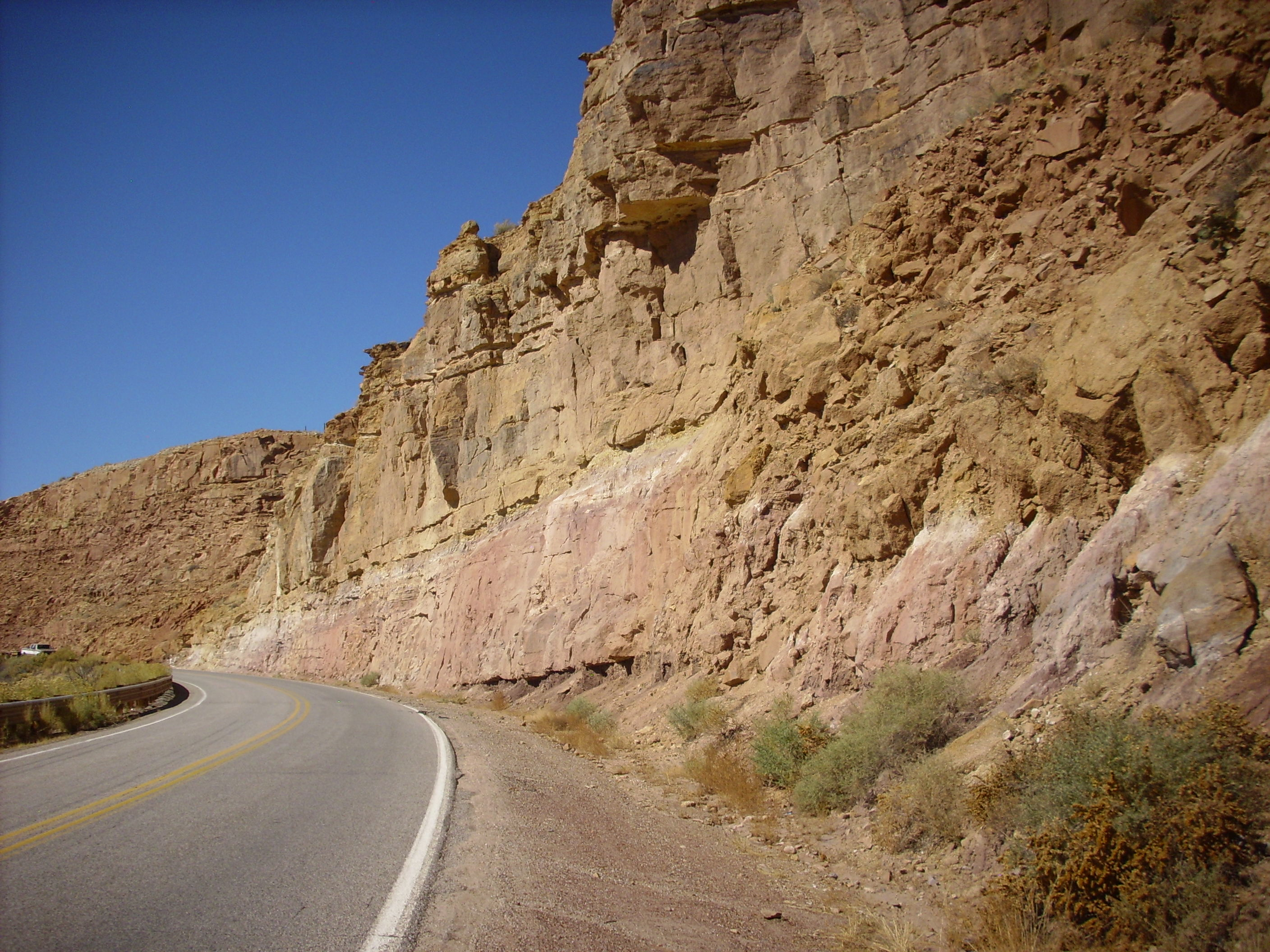 This image shows the lower Chinle Group exposed in a road cut west of Abiquiu, New Mexico. The thick tan sandstone beds at top are Poleo Formation. Below this is a thin bed of mudstone of the Salitral Formation, then a thicker bed at road level of pinkish Shinarump Conglomerate. The top of the Permian Cutler Group (Arroyo del Agua Formation) is barely exposed at the base of the road cut.